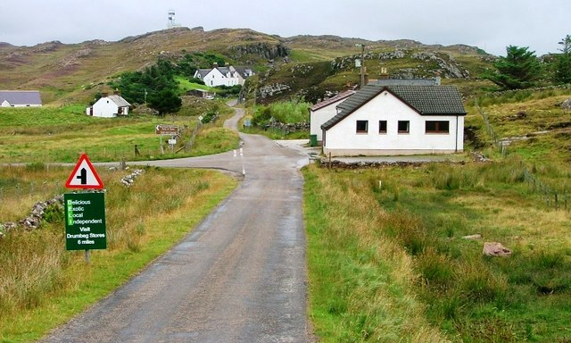 Turn Off to Stoer Lighthouse. The building opposite the junction is the village community hall.